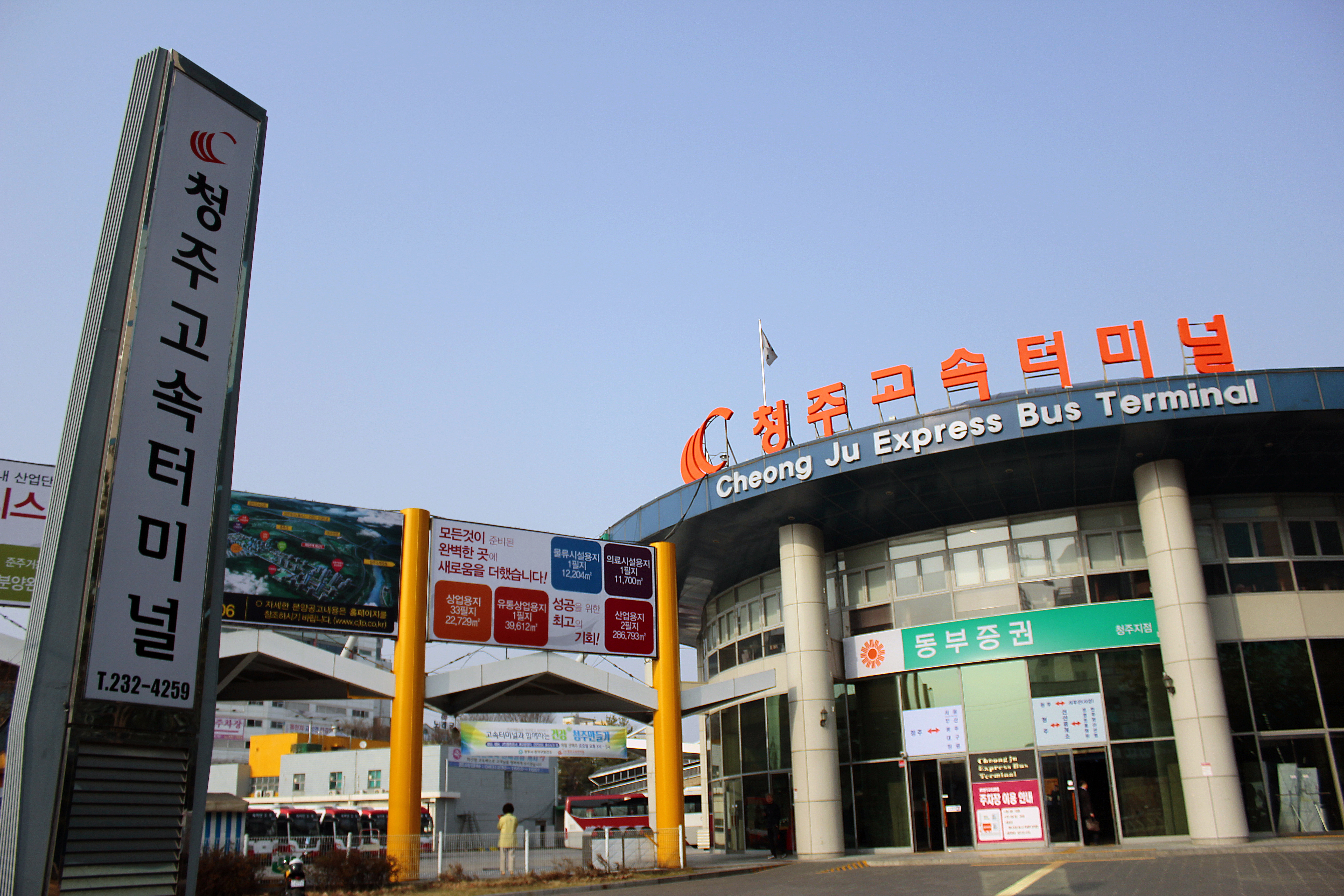 Cheongju Express Bus Terminal